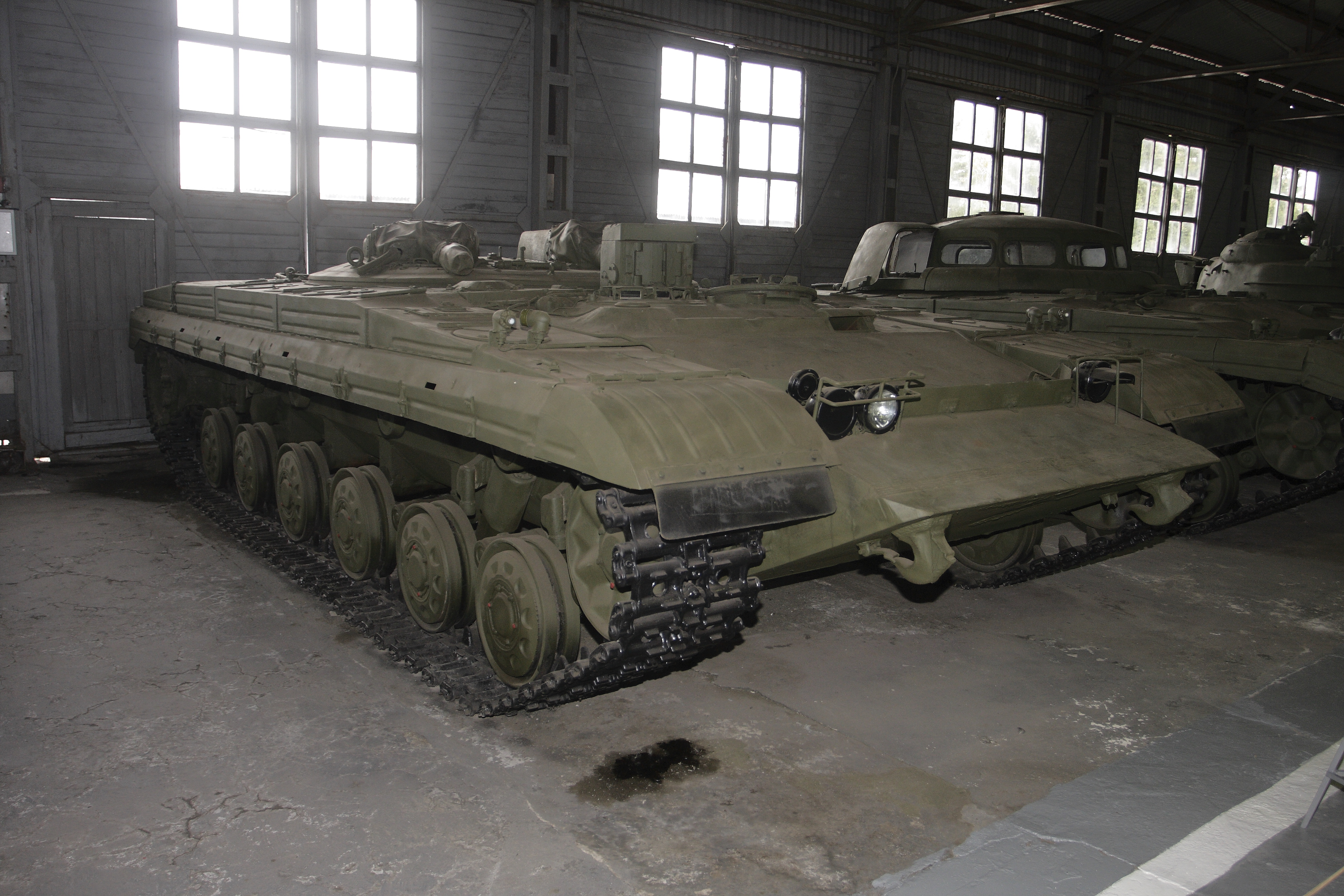 Object 287 (anti-tank rocket launcher on the basis of T-64) in Kubinka Tank Museum